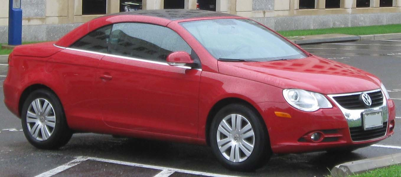 Volkswagen Eos photographed in College Park, Maryland, USA.